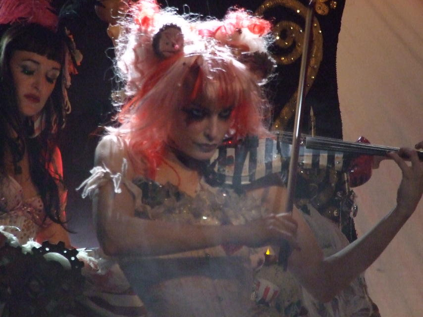 An Emilie Autumn photo taken the 11-01-2008 in germany.